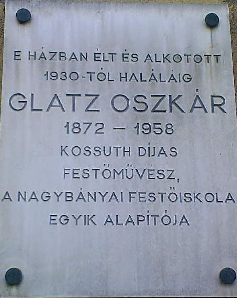 Commemorative plaque of Oszkár Glatz in Budapest District XII, Városmajor Street No 16 A-B